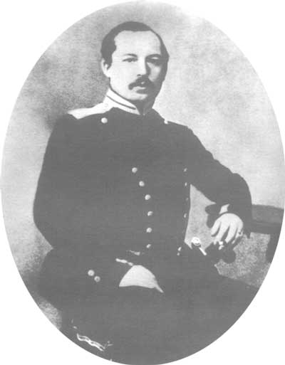 Russian poet Afanasy Fet